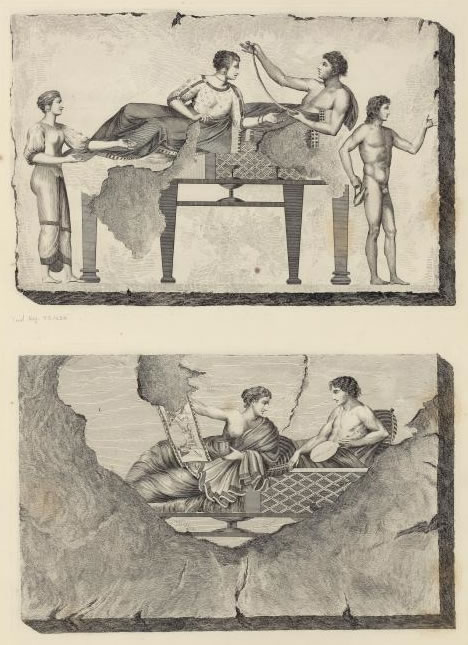 Tomba del Biclinio, right wall